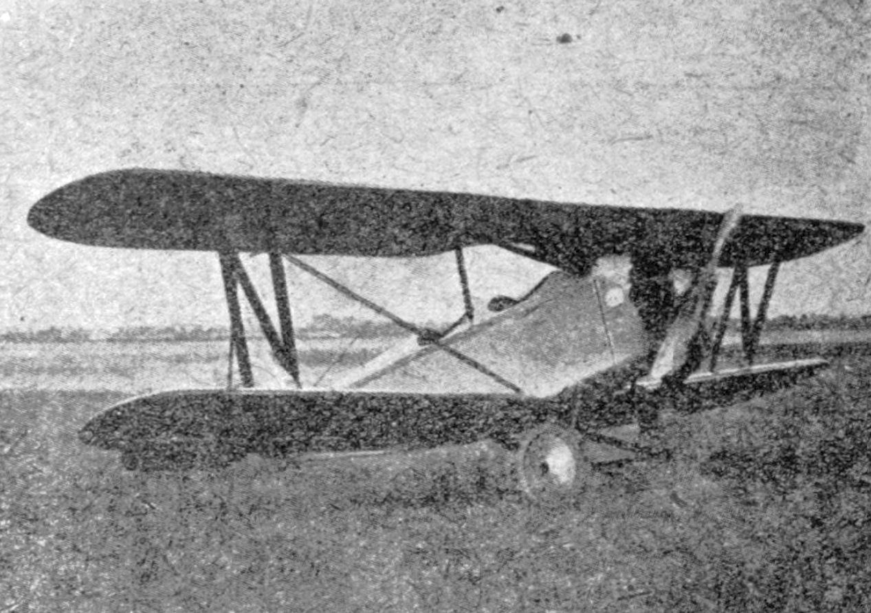 Albatros L 68a photo from L'Air October 15,1926